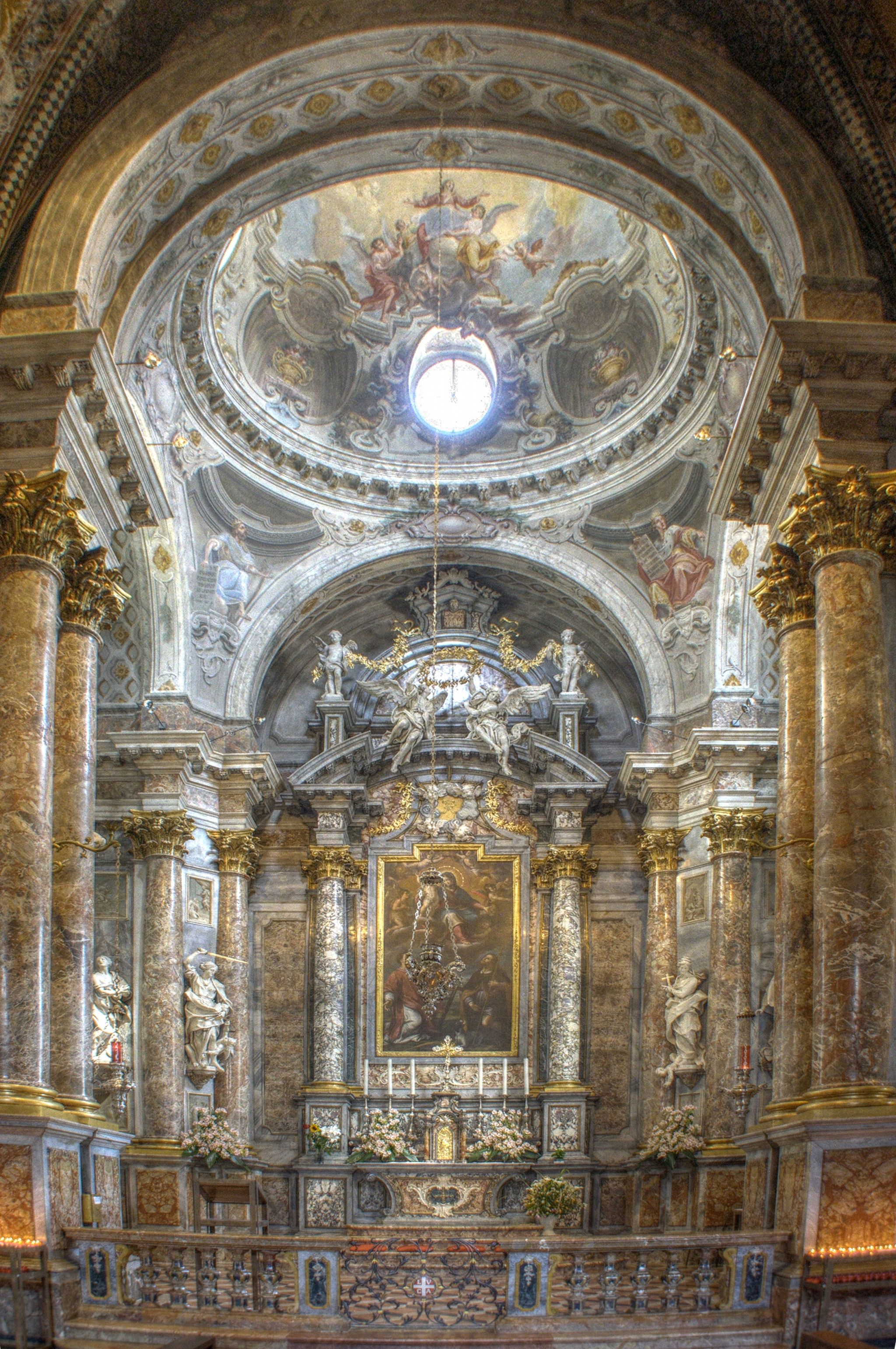 Lugano, Tessin, Switzerland, San Lorenzo cathedral, baroque side chapel